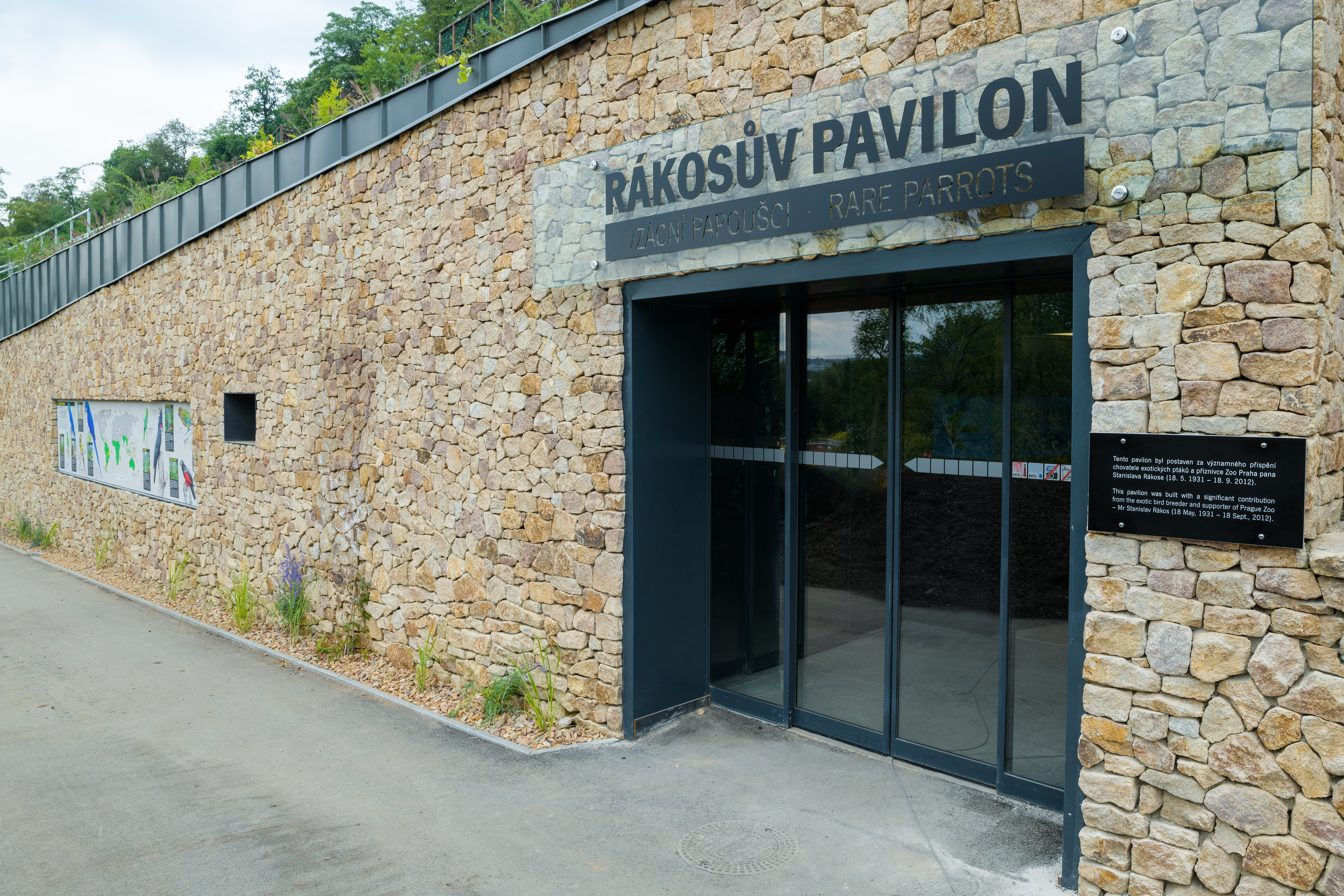 Rákos' House for exotic birds - entry